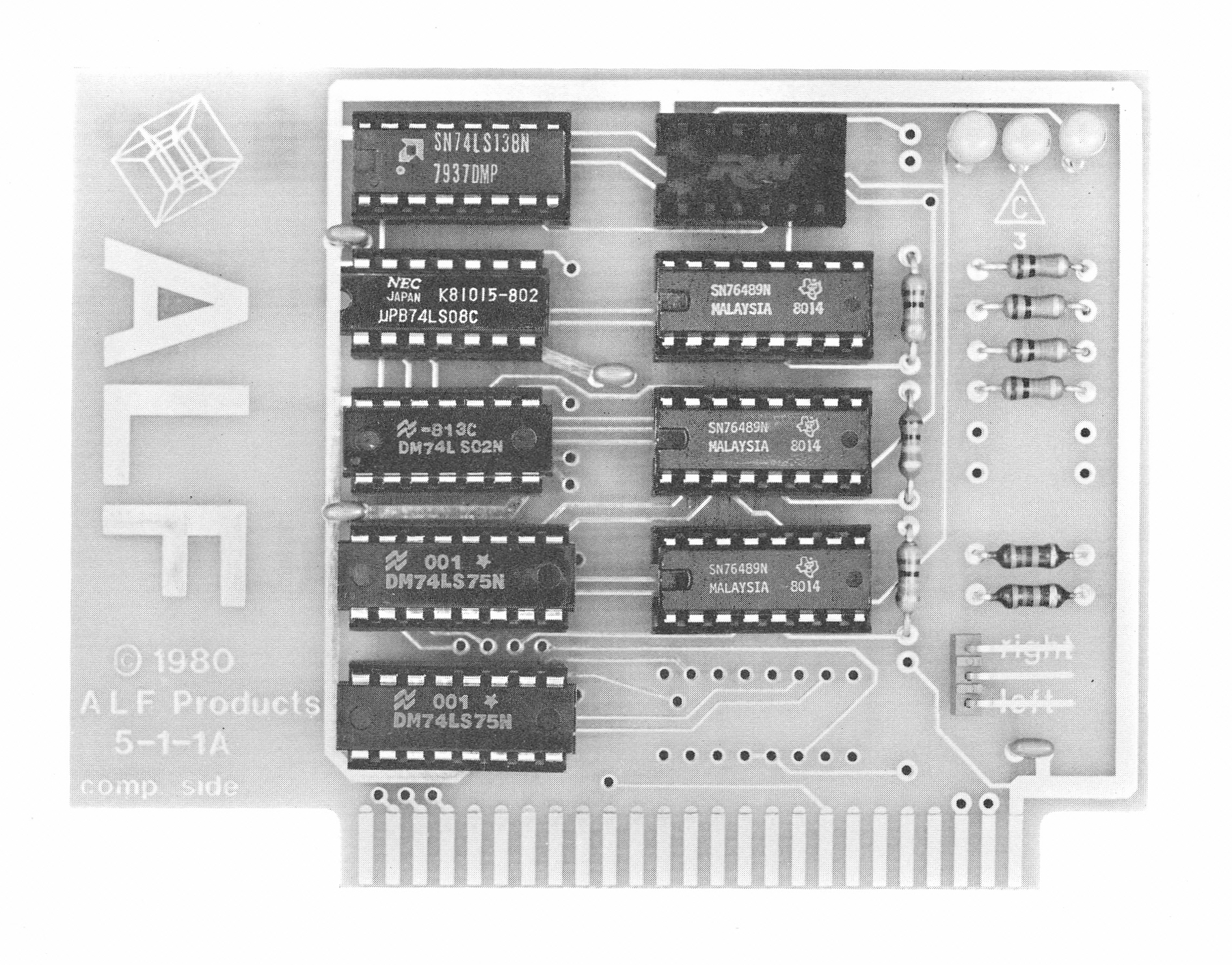 ALF Products Inc. Music Card MC1 circuit card, front side.